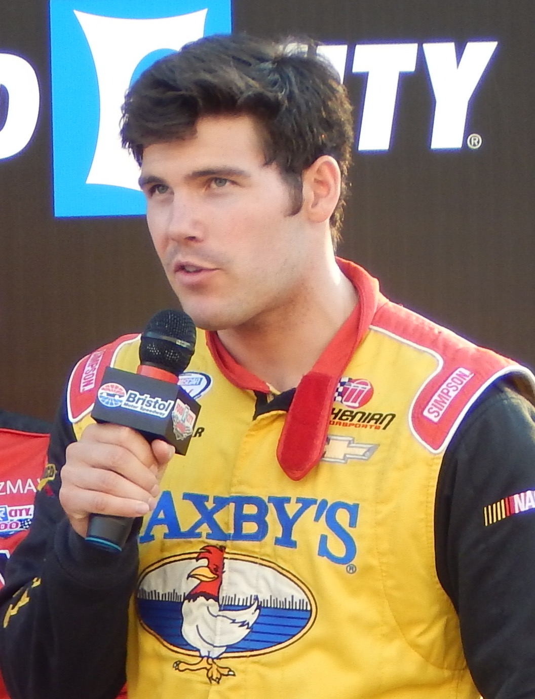 John Wes Townley being introduced at Bristol Motor Speedway for the 2015 Food City 300.